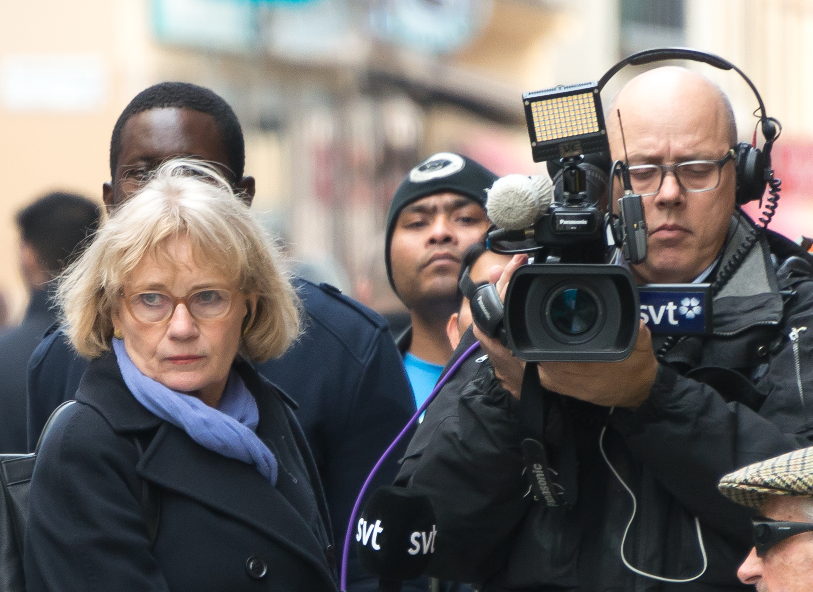 Kerstin Holm, SVT, with photographer after the 2017 Stockholm truck attack on Drottninggatan on April 7, 2017.